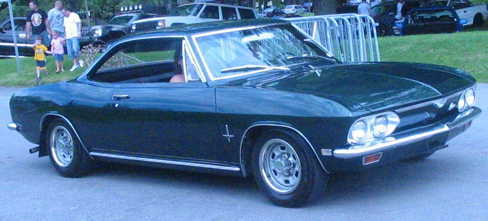 1966 Chevrolet Corvair Monza photographed in Montreal, Quebec, Canada at the 5th annual Lowrider Luxurious Montreal Club BBQ 2011.